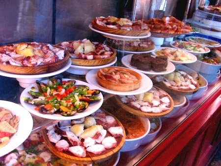 Some traditional tapas in the window of a Madrid restaurant.